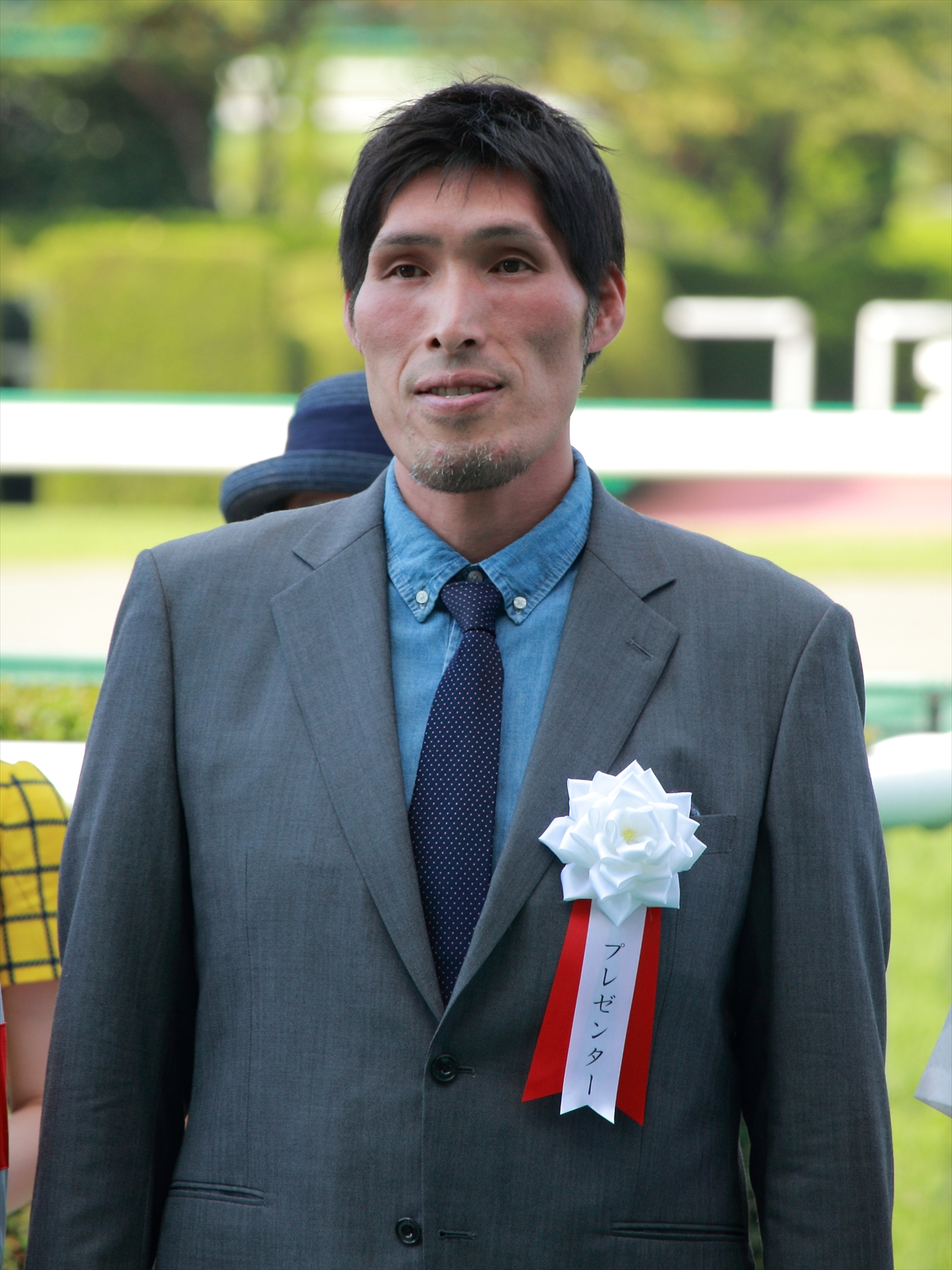 Shin'ichi Shinohara (Japanese judoka and winner of the gold medal at the 1999 World Judo Championships in Birmingham. the silver medal at the 2000 Summer Olympics)